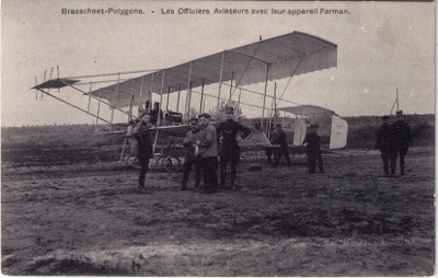 Belgian army officers in front of their Henri Farman-Jero HF.3 aircraft at the airstrip of Brasschaat.